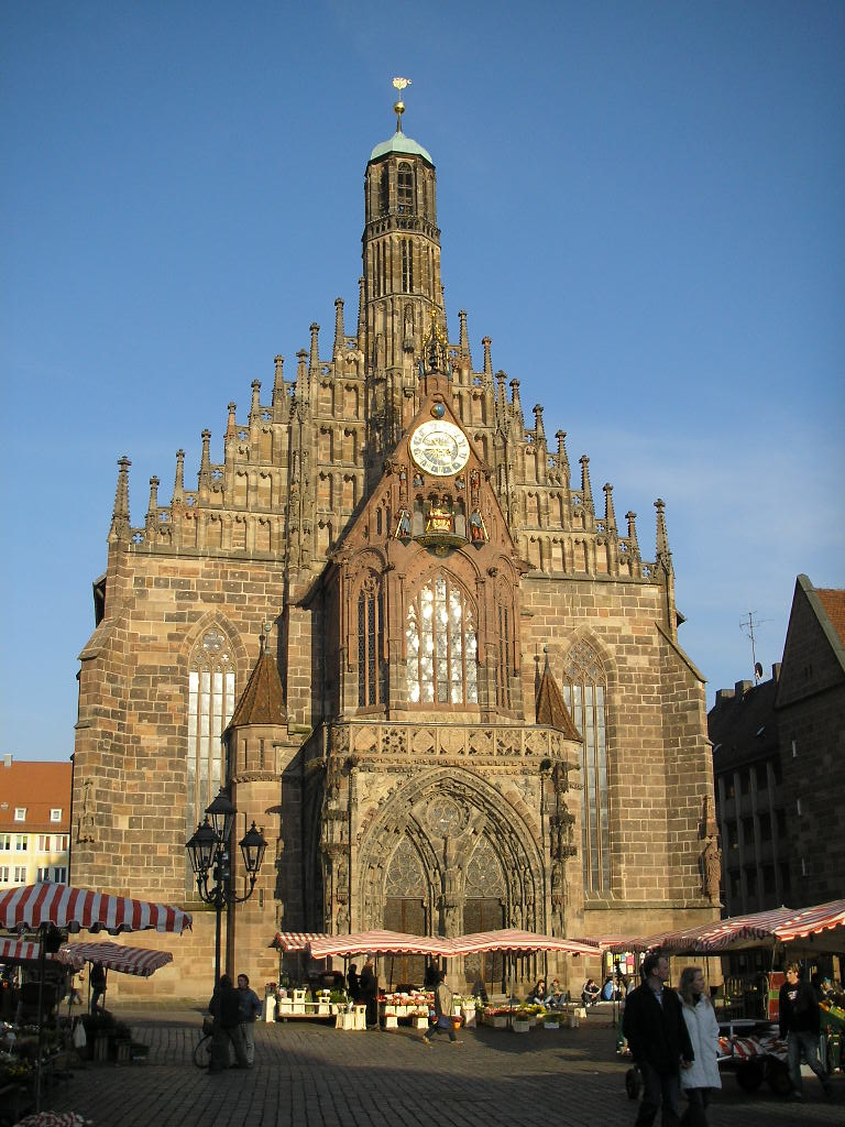 View of the Frauenkirche in Nuremberg.